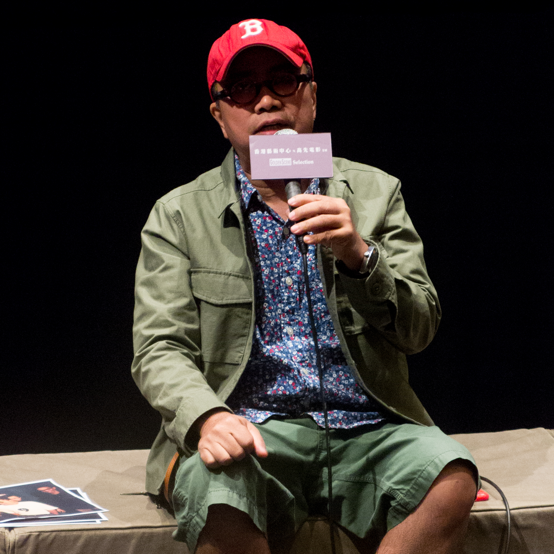 Fruit Chan at Hong Kong Arts Centre.